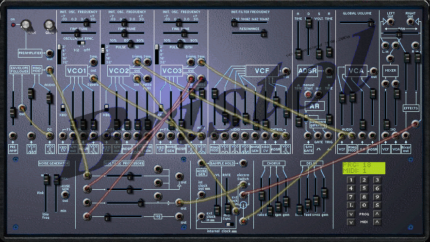 Output from the Bristol ARP 2600 emulation converted from XPM to GIF using GIMP